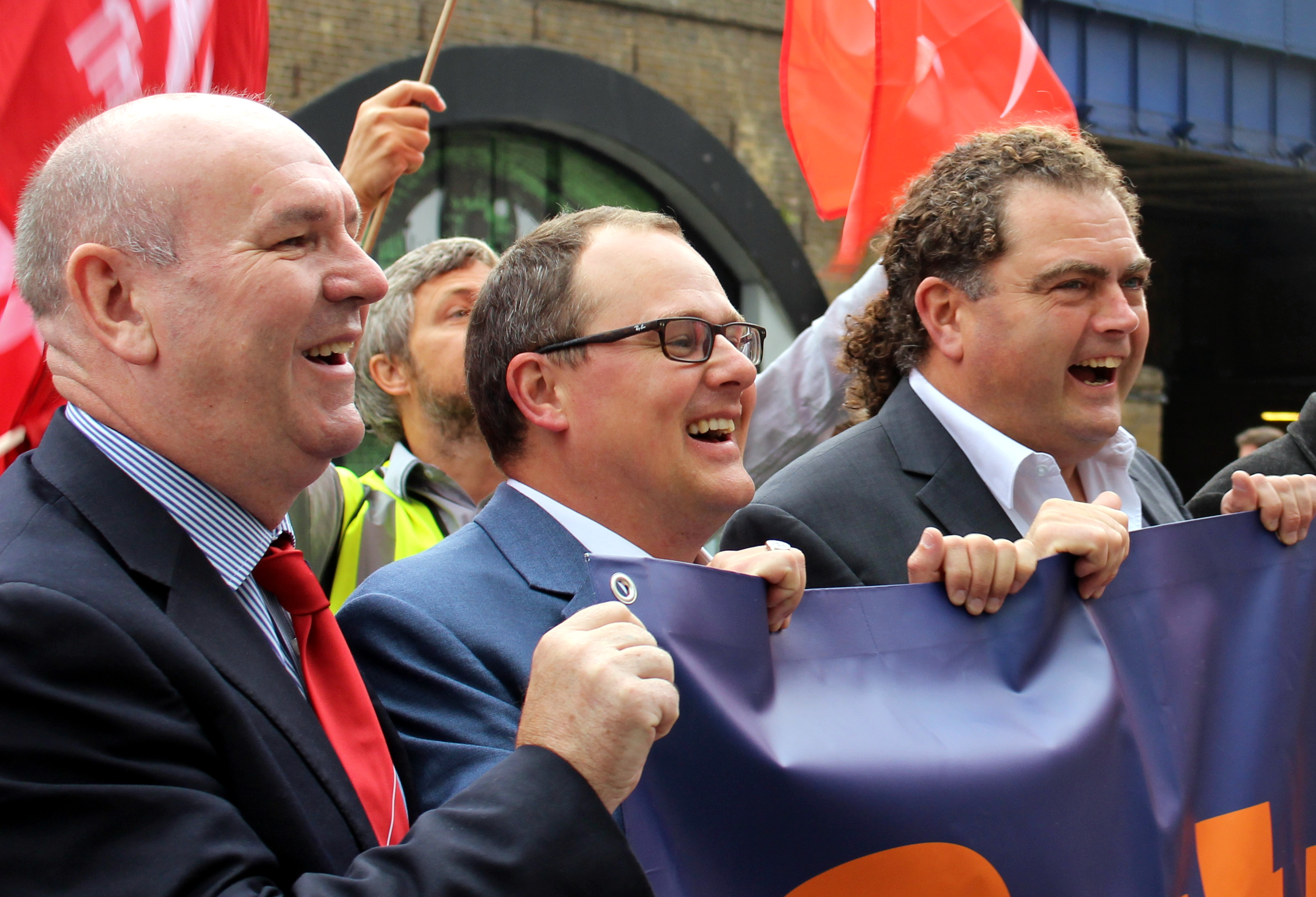 crop of (from left) Mick Whelan (ASLEF), Paul Nowak (TUC), Manuel Cortes (TSSA) at Protest for an Affordable Railway under Public Ownership - Waterloo. Levels adjusted.